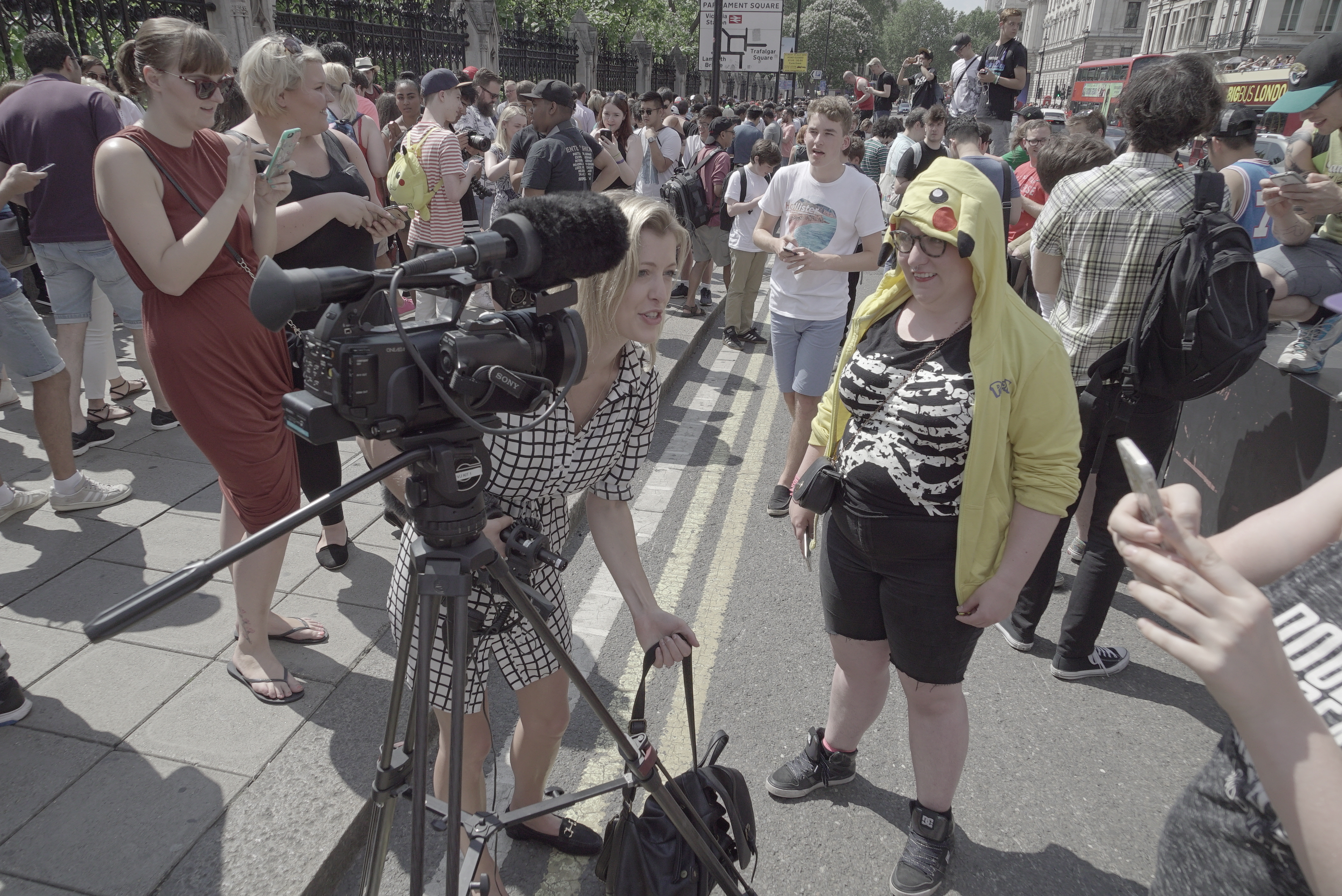 Participants in the Pokémon GO public event in London